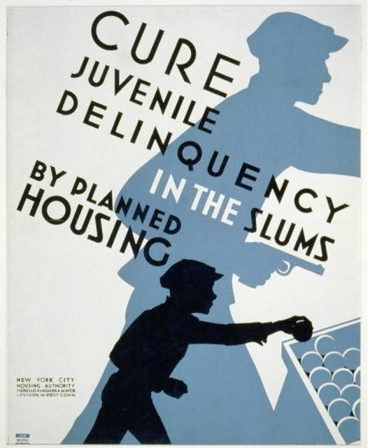 Title: Cure juvenile delinquency in the slums by planned housing Date Created/Published: [New York] : Federal Art Project, [1936] Medium: 1 print on board (poster) : silkscreen, color. Summary: Poster promoting planned housing as a method to deter juvenile delinquency, showing silhouettes of a child stealing a piece of fruit and a child involved in armed robbery. Reproduction Number: LC-USZC2-1017 (color film copy slide) LC-USZ62-59985 (b&w film copy neg.) Rights Advisory: No known restrictions on publication. Call Number: POS - WPA - NY .01 .C76, no. 1 (C size) [P&P] [P&P] [P&P] Repository: Library of Congress Prints and Photographs Division Washington, D.C. 20540 USA Notes: Date stamped on verso: Oct 20 1936. Work Projects Administration Poster Collection (Library of Congress). New York City Housing Authority - Fiorello H. La Guardia, Mayor - Langdon W. Post, Comm. Posters of the WPA / Christopher DeNoon. Los Angeles : Wheatly Press, c1987, no. 220